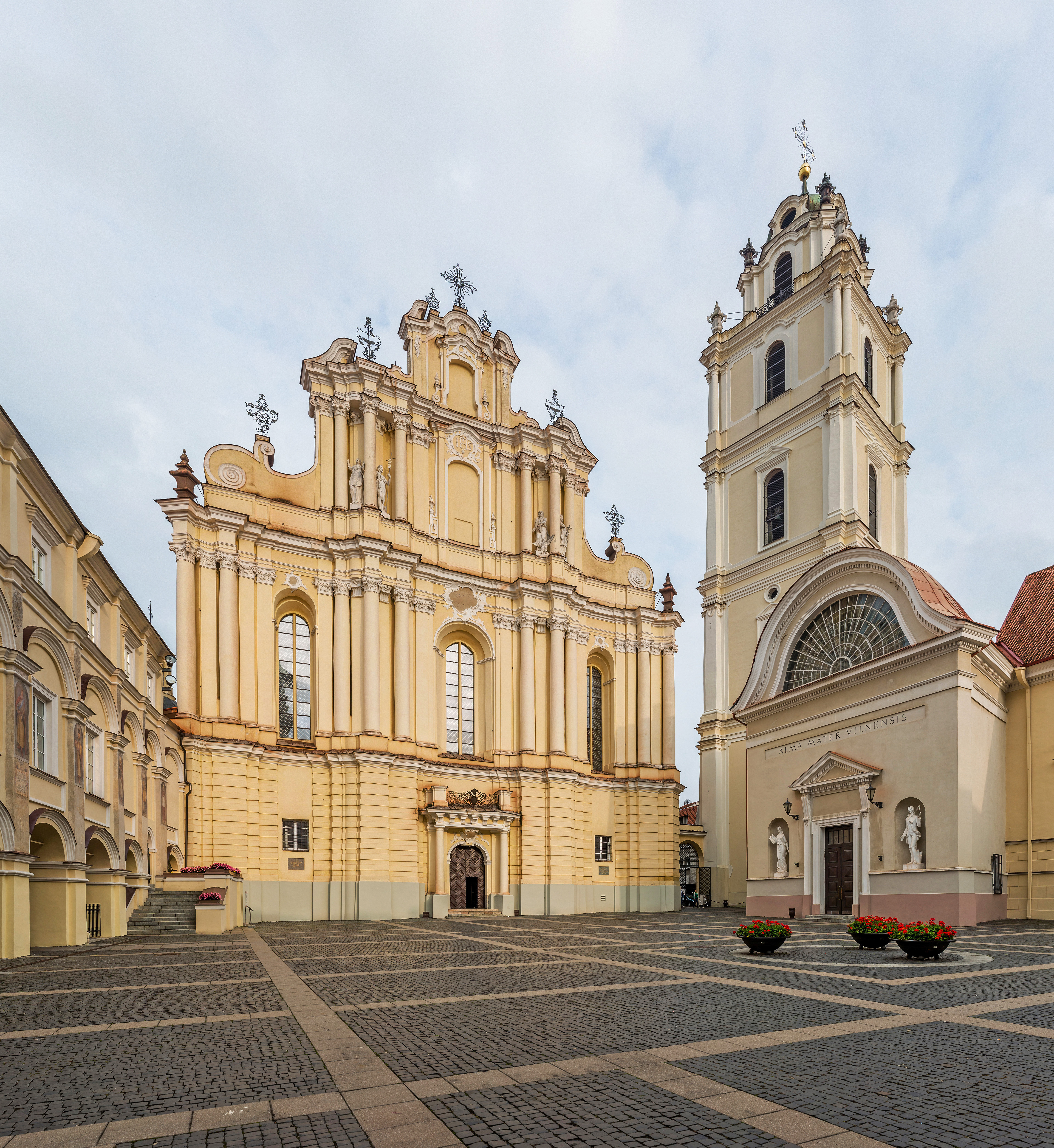 The Great Courtyard of Vilnius University in Vilnius, Lithuania, looking south east.